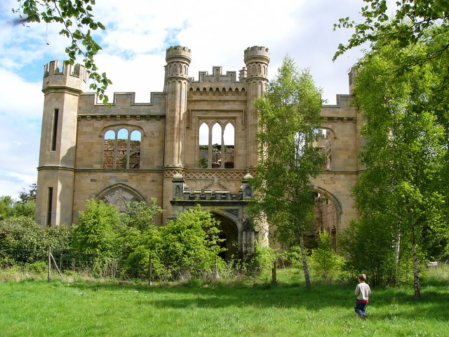 Crawford Priory, by Springfield